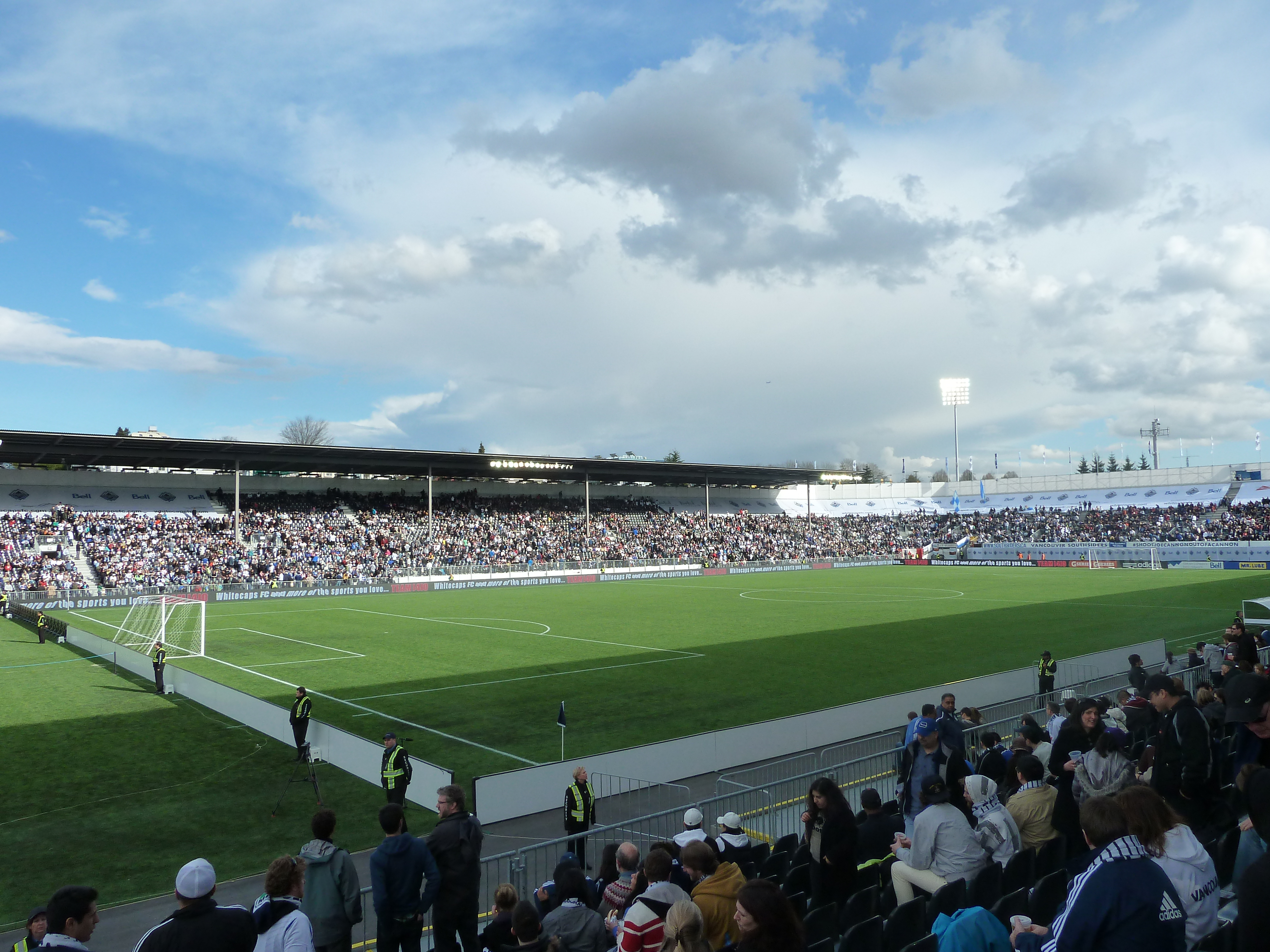 Empire Field: Vancouver Whitecaps FC vs. Sporting Kansas City 2 April 2011